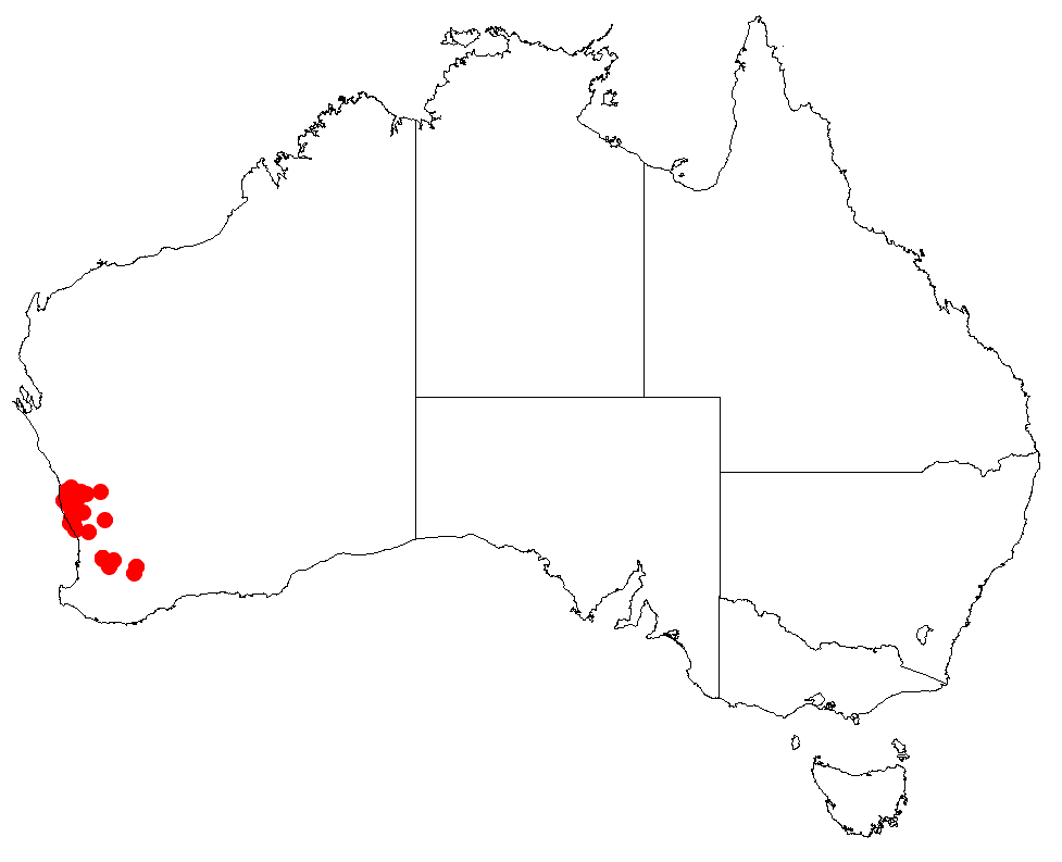 Hakea anadenia Occurrence data downloaded from Australasian Virtual Herbarium on 22 November 2018 using